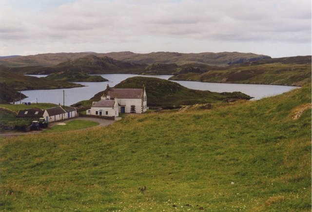 Quinag and Scourie from Handa This view across the Sound of Handa from the south side of the island shows part of the village of Scourie and Quinag in the background